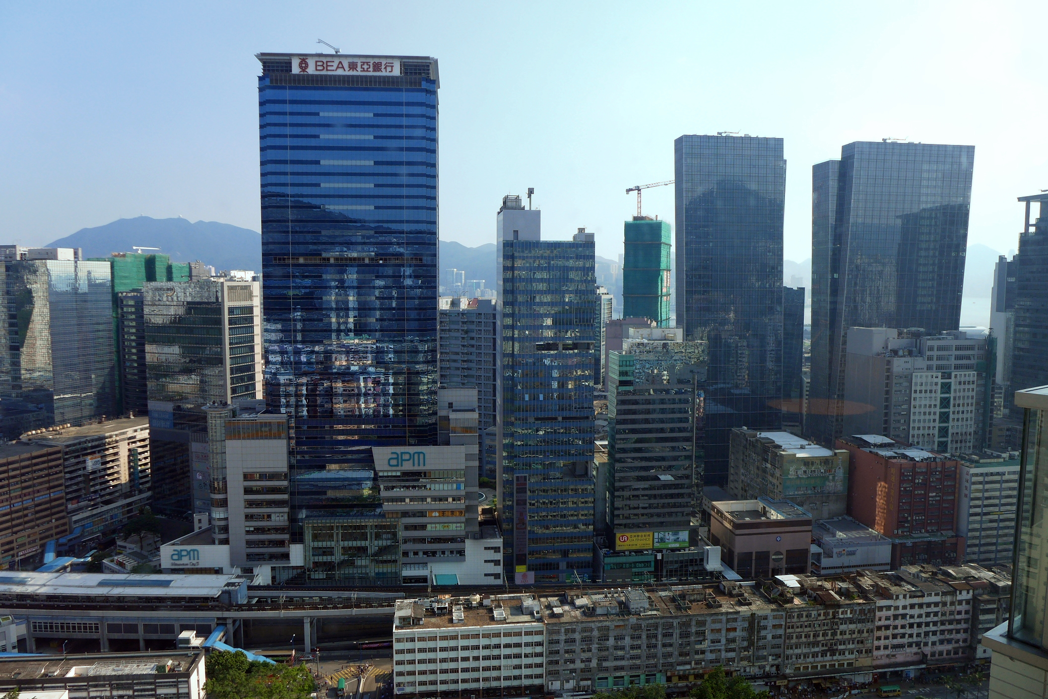 Kwun Tong Commercial Buildings